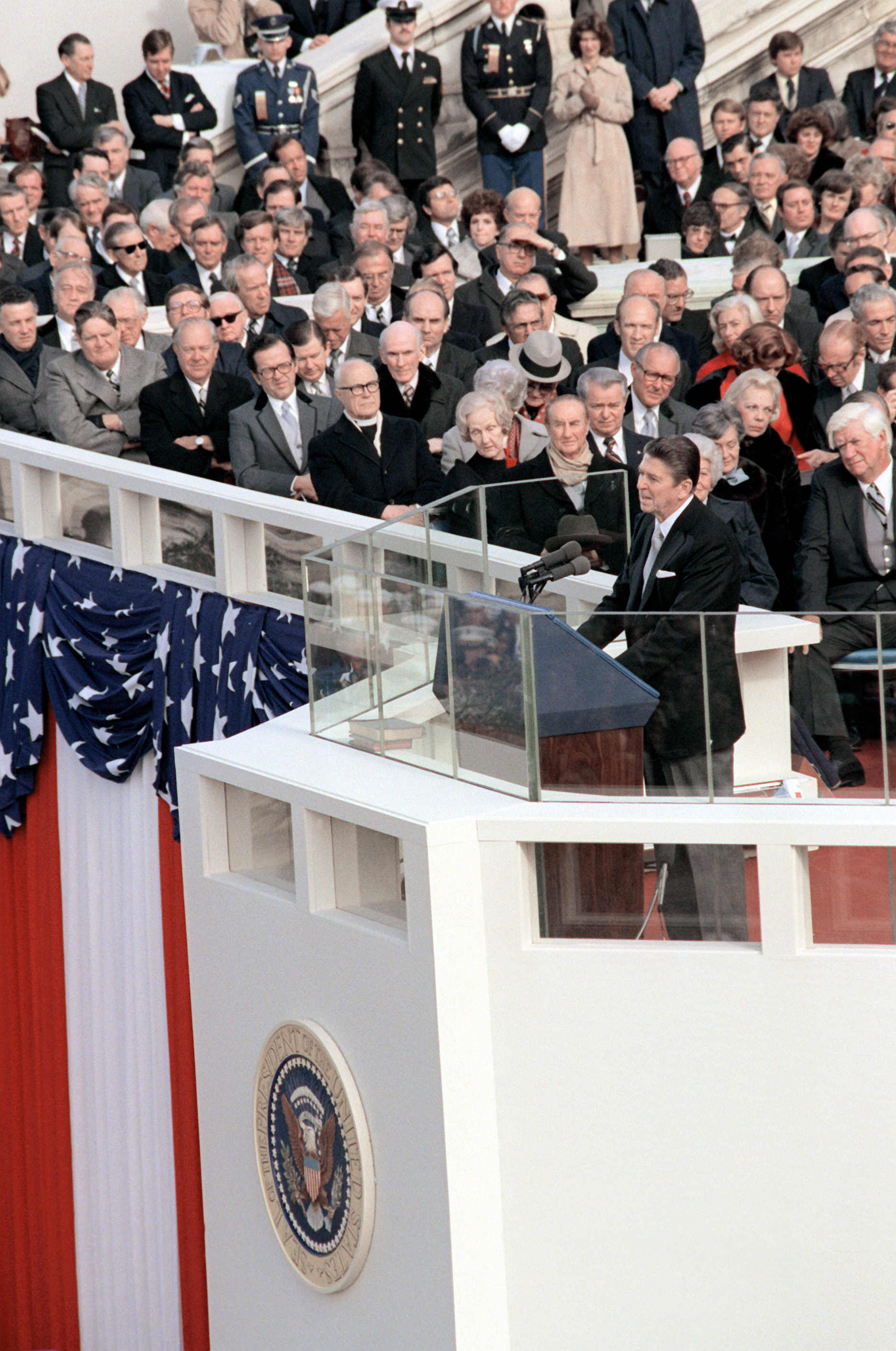 President Ronald Reagan, the 40th president of the United States of America, delivers his inaugural address from the specially built platform in front of the Capitol during Inauguration Day ceremony.